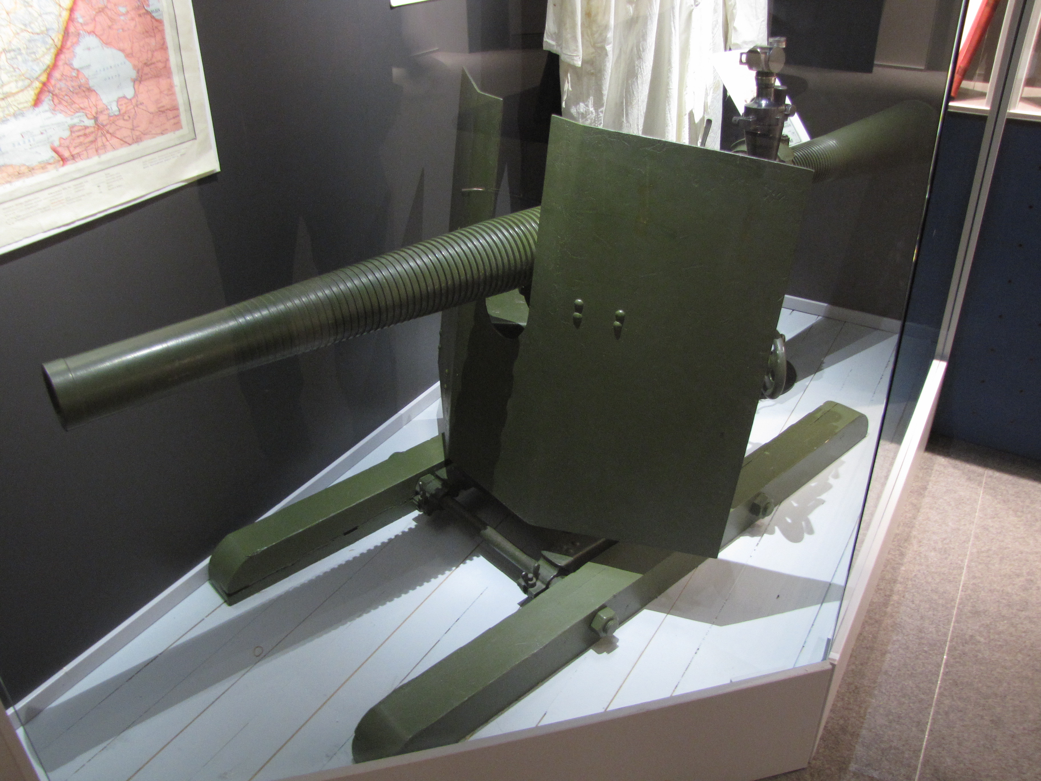 Soviet Union 76 mm DRP recoilless gun captured by Finns in Winter War. Photographed in the "Winter War - 70 years" exhibition in the Military Museum of Finland.